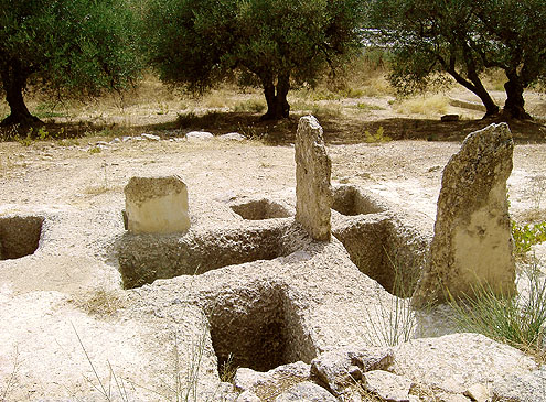 Mycenean grave Fourni Archanes, Crete